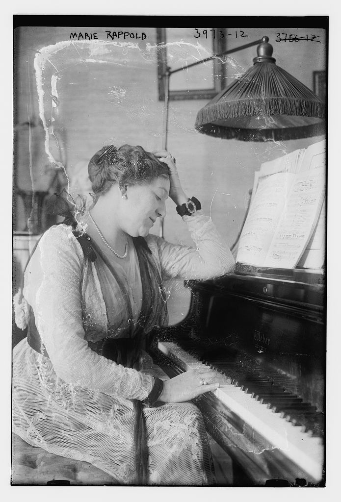 Marie Rappold, née Winterroth in 1916.